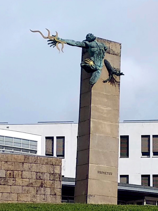 Statue at University of Minho, Braga, Portugal